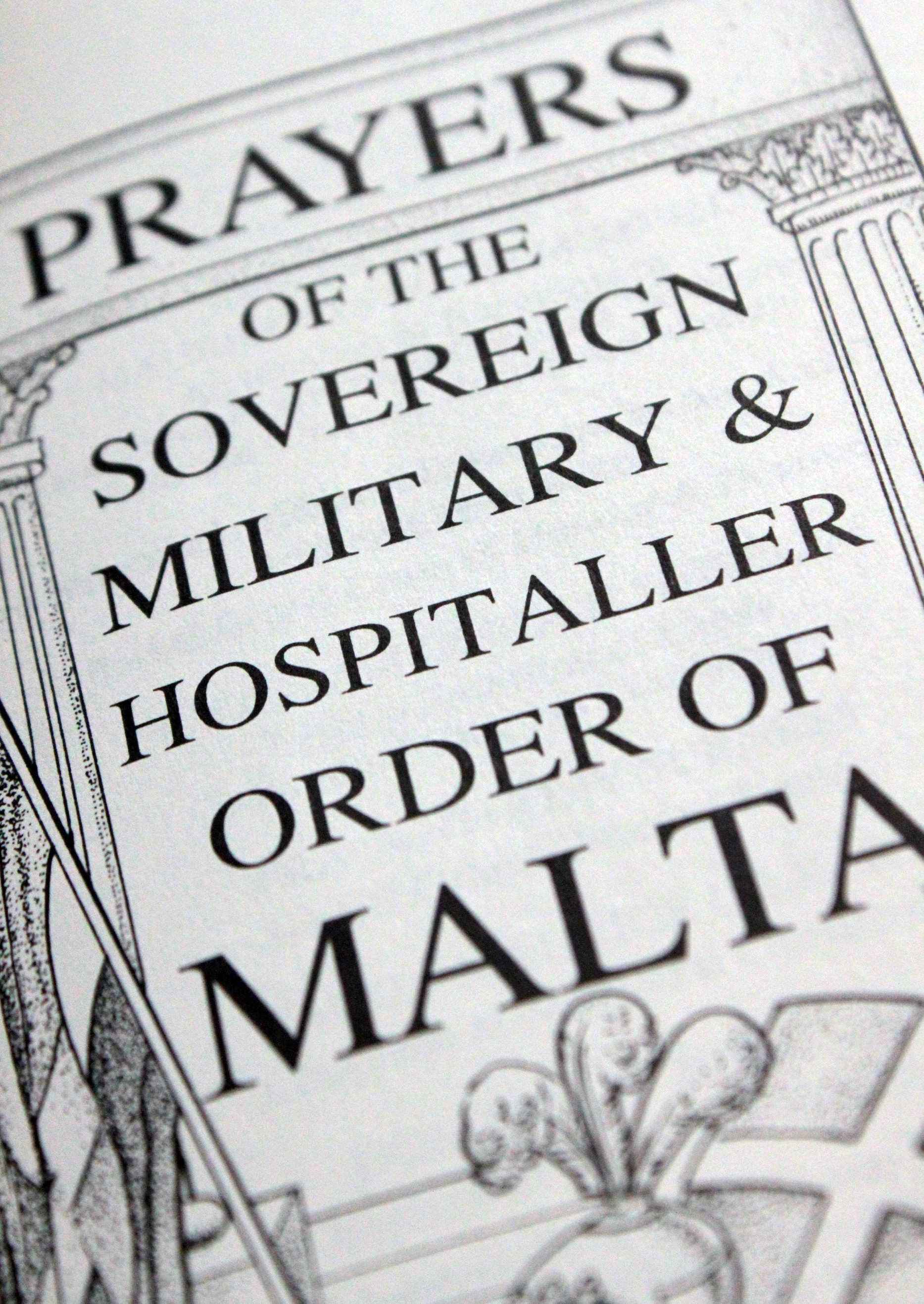 Detail from the Order's book of prayers